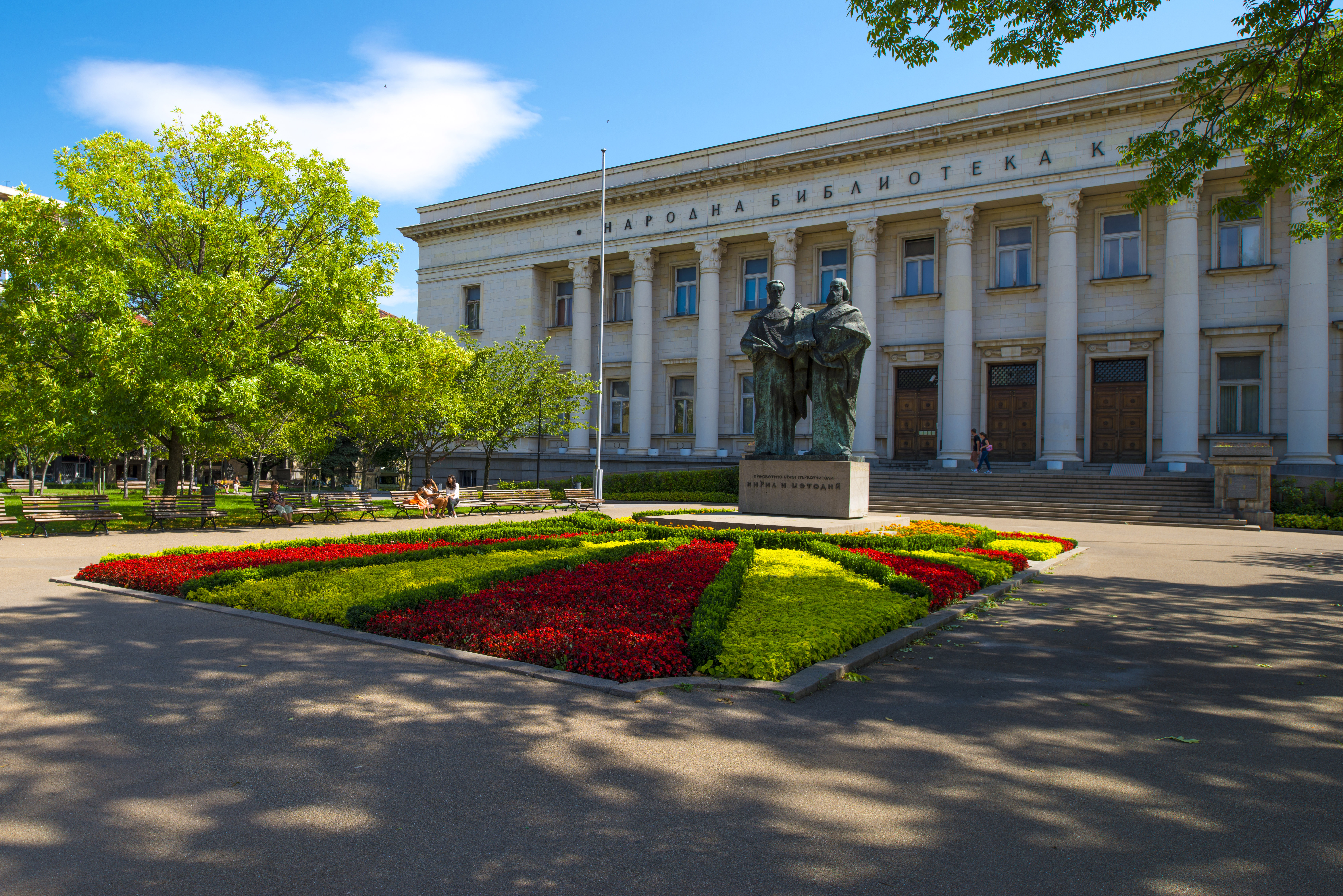 Share Bulgaria